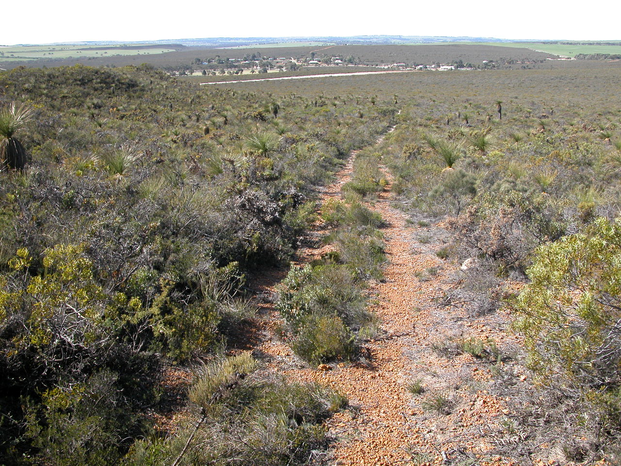 View south-east towards the township of Badgingarra from a low rise in Badgingarra National Park, showing the typical laterite soil and low scrubby vegetation of the National Park.